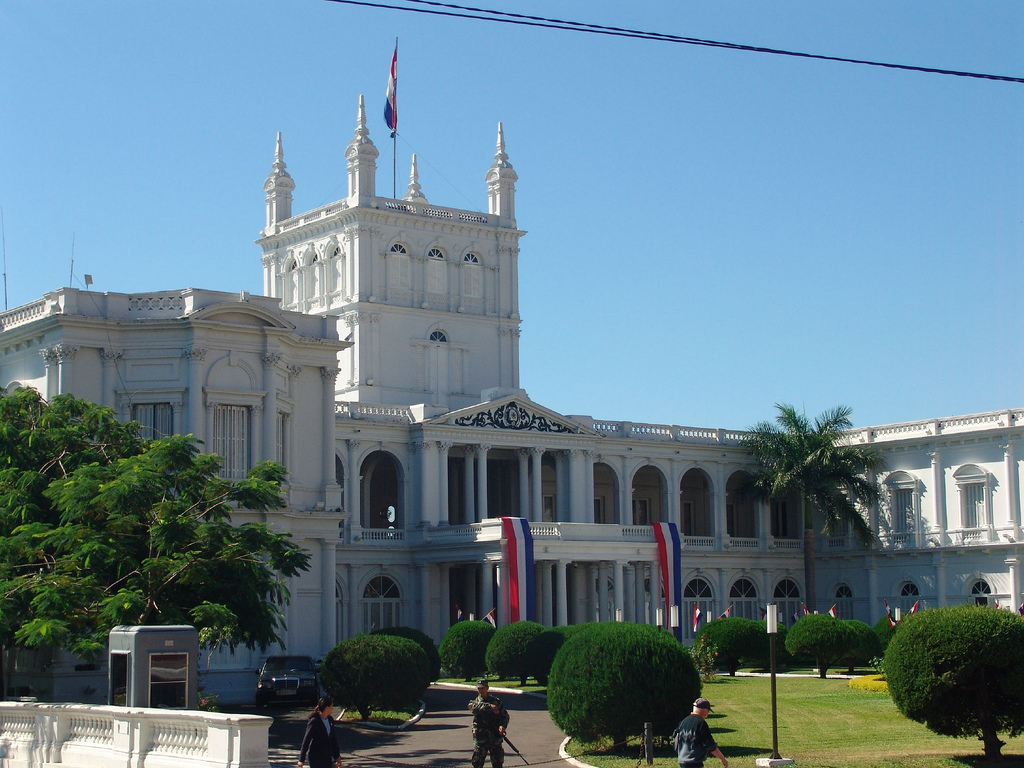 Palacio de Lopez